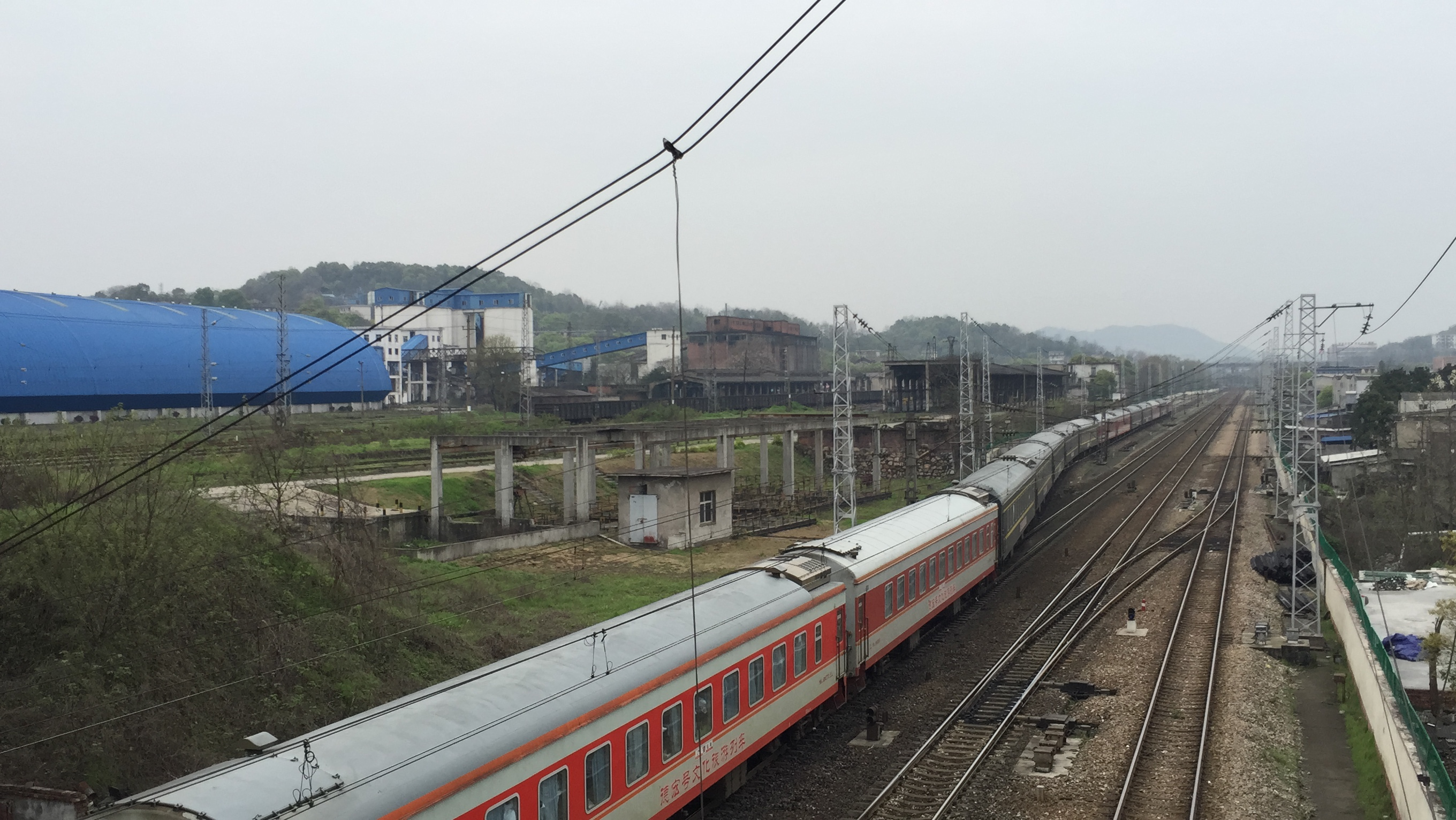 K739 from Shanghainan to Kunming, named Dehong.